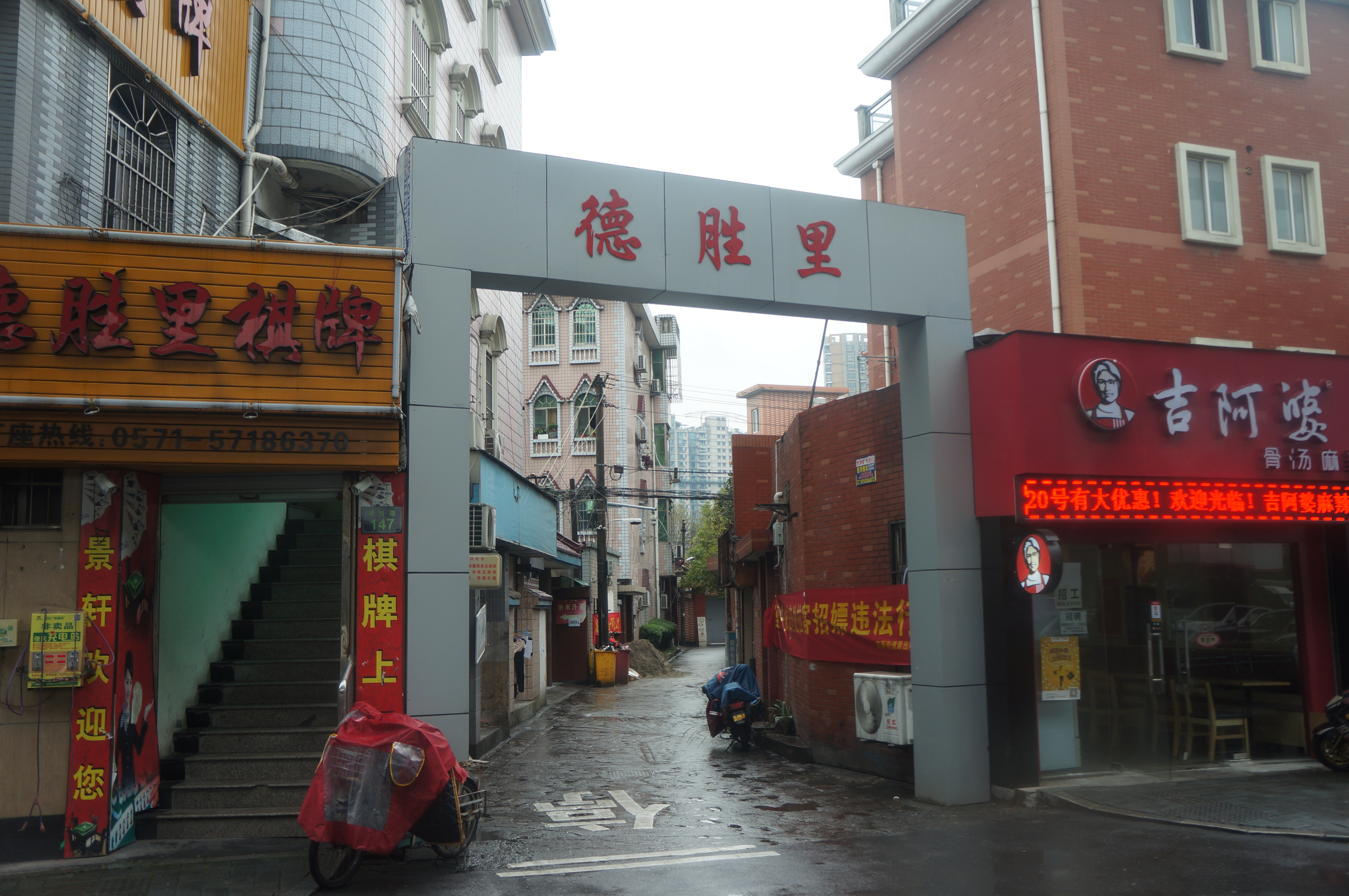 201611 Deshengli in East Desheng Town